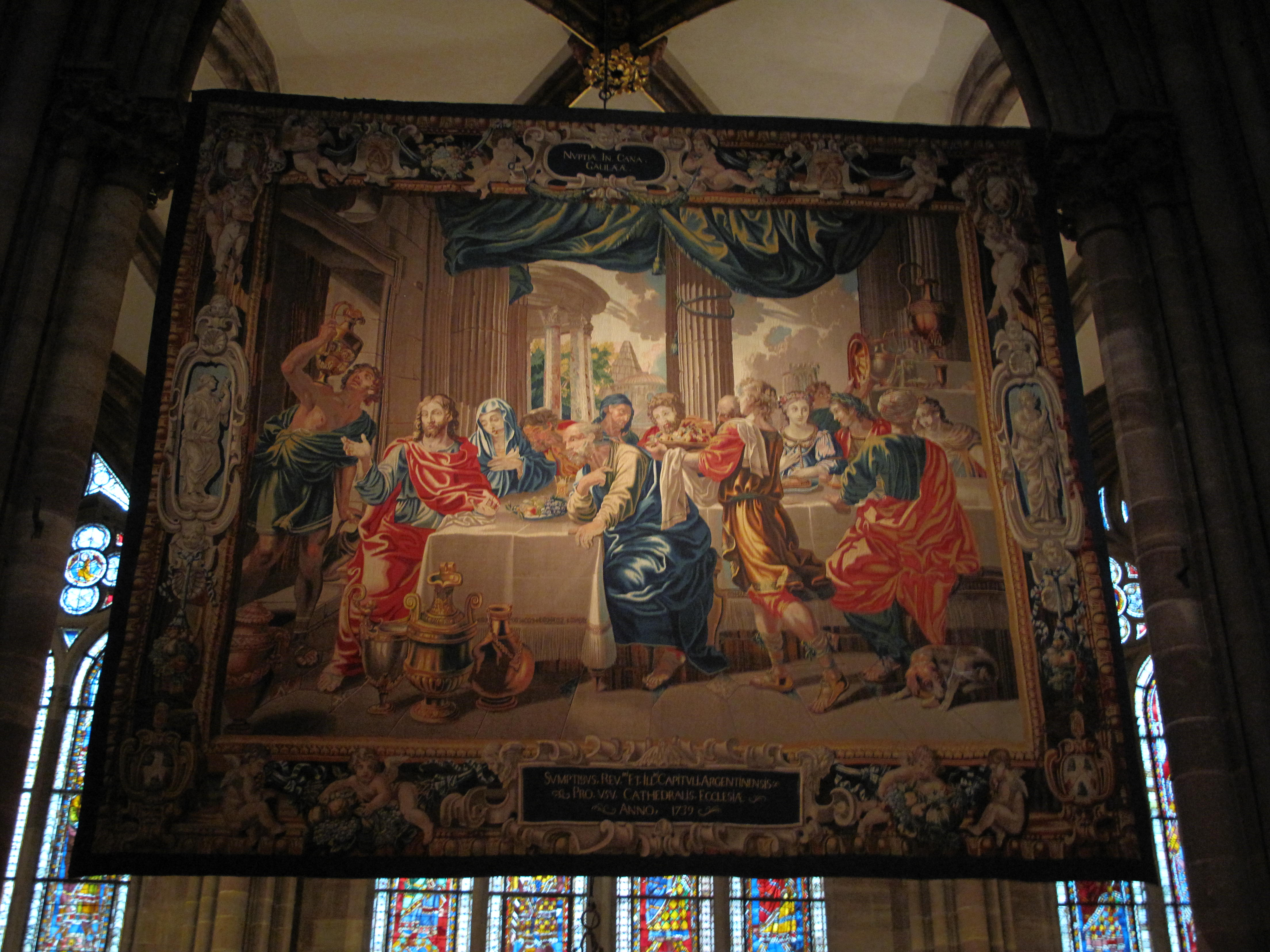 Tapestry "Marriage at Cana" in the nave of the cathedral of Strasbourg, France